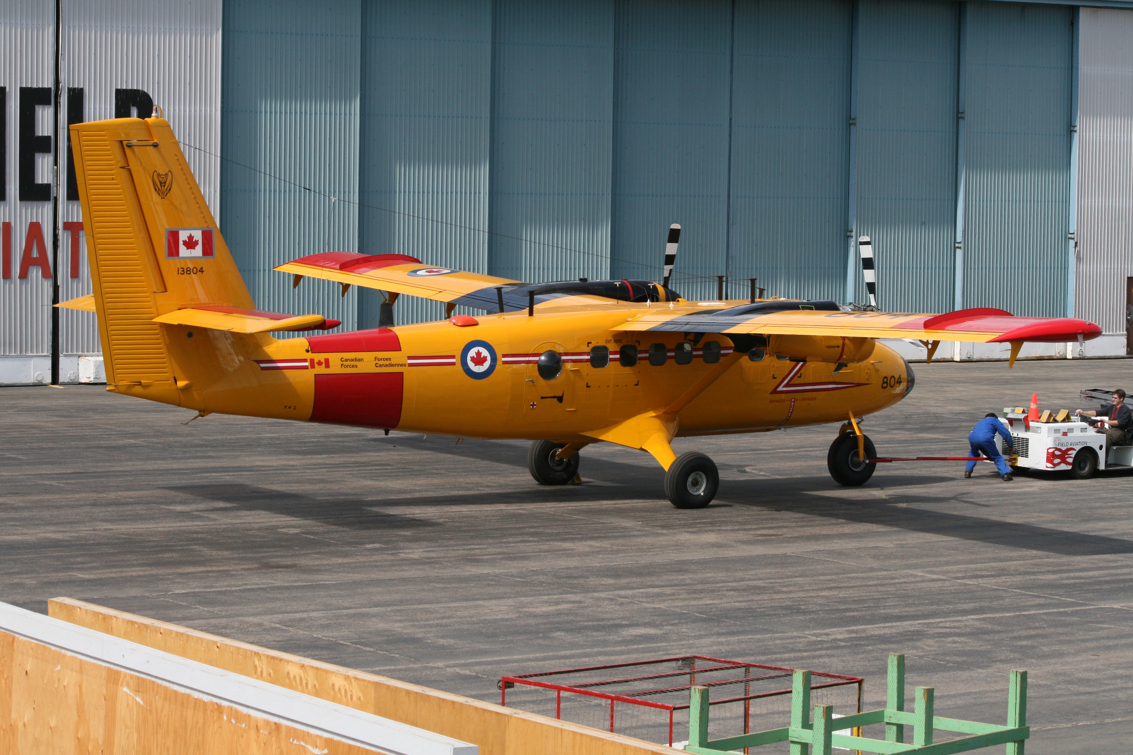 At Field for some repairs. Love the flame paint job on the tug!!